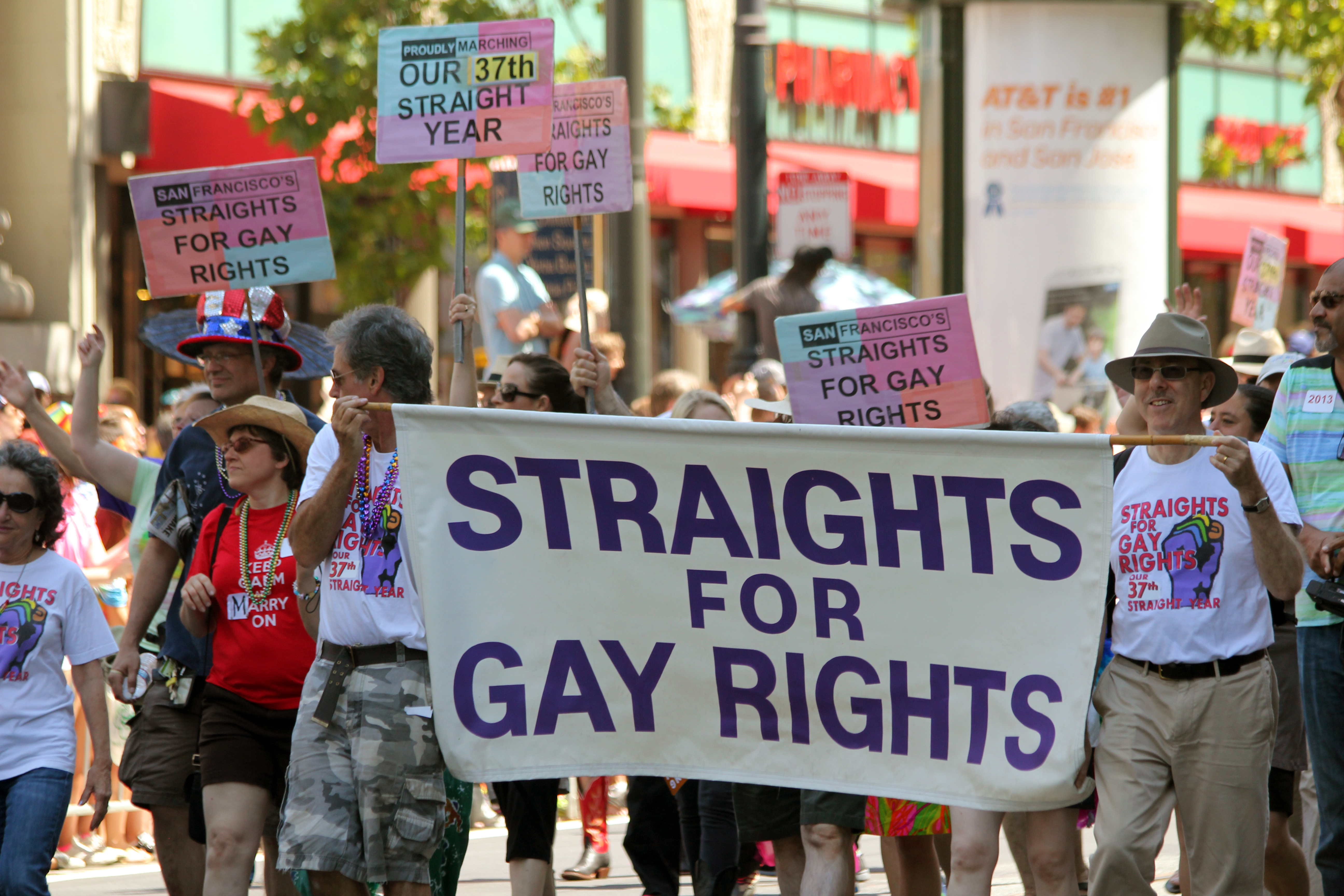 Our 37th straight year